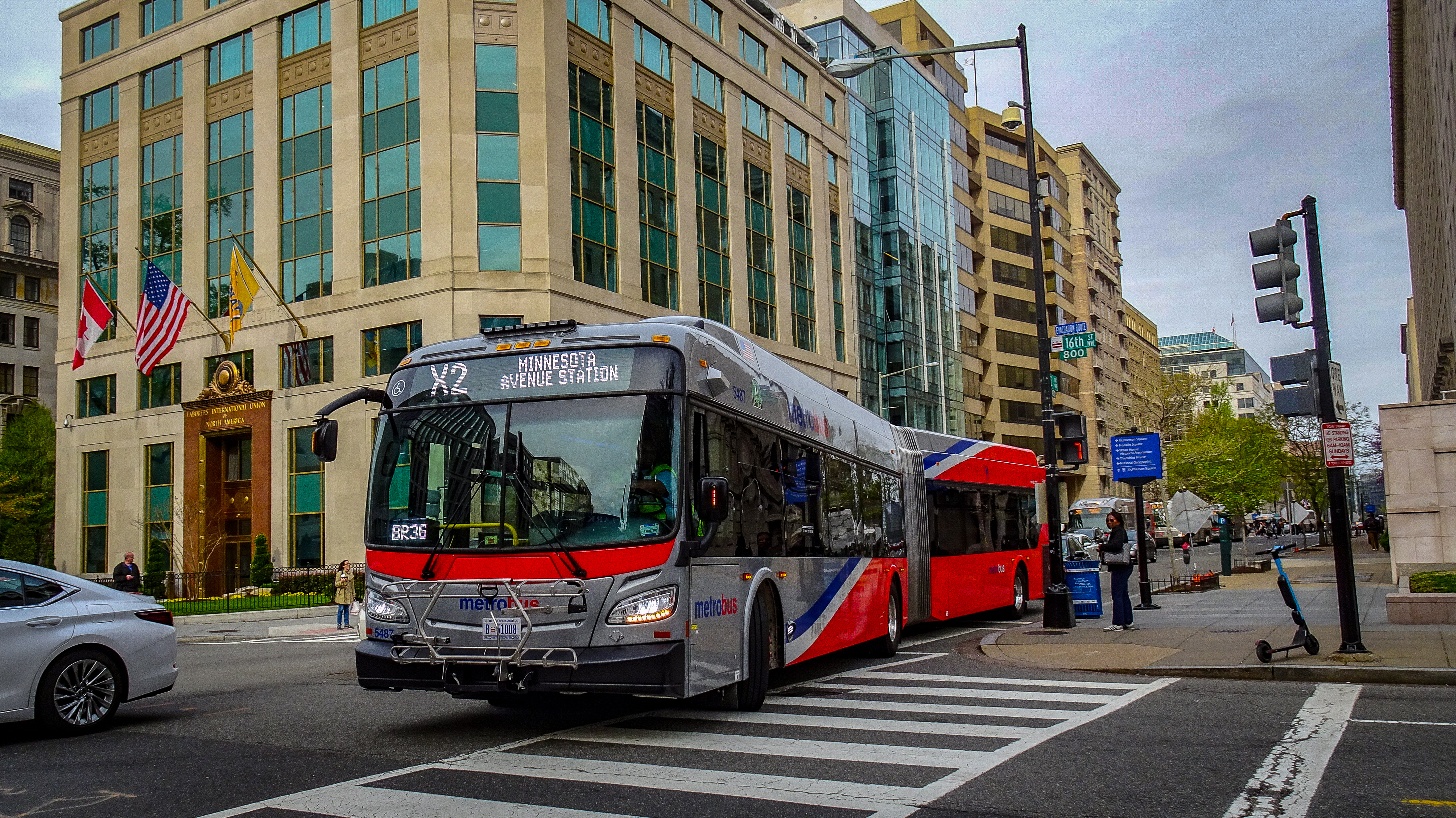 2018 WMATA NF Xcelsior XDE60 in Washington DC